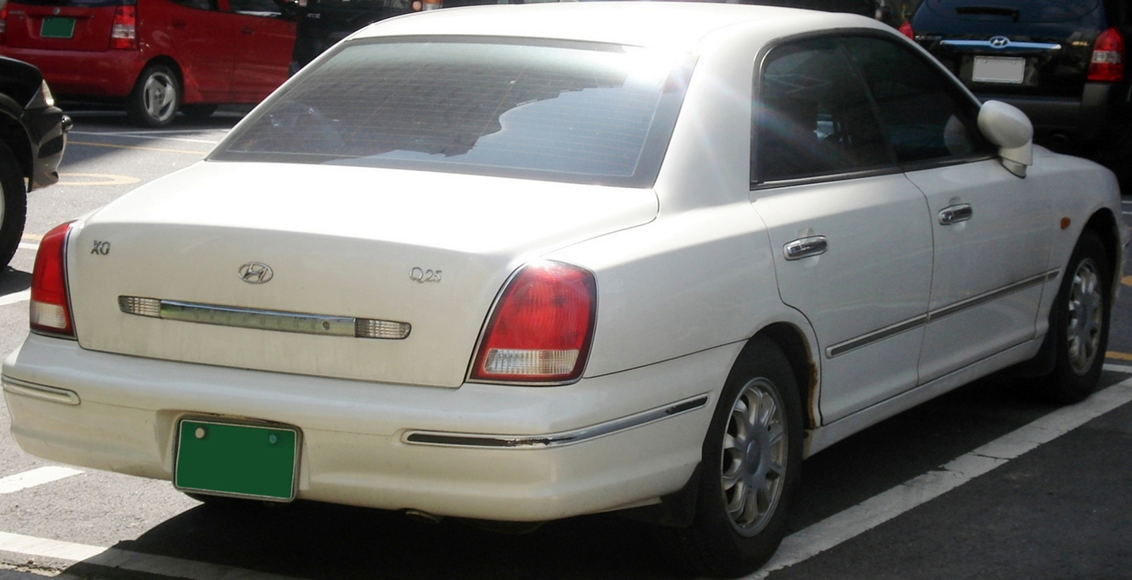 Hyundai Grandeur XG